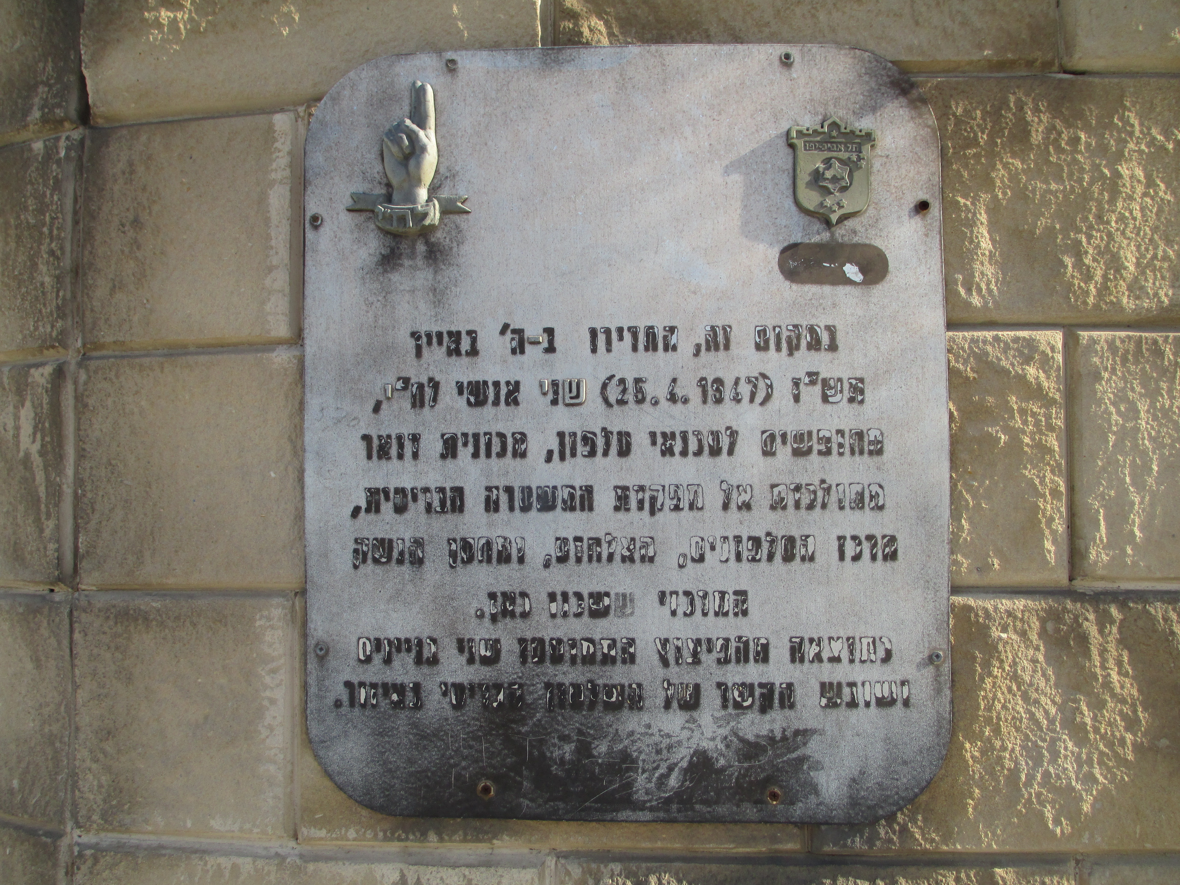 lehi (isreal freedom fighters) memorial plaque in tel aviv